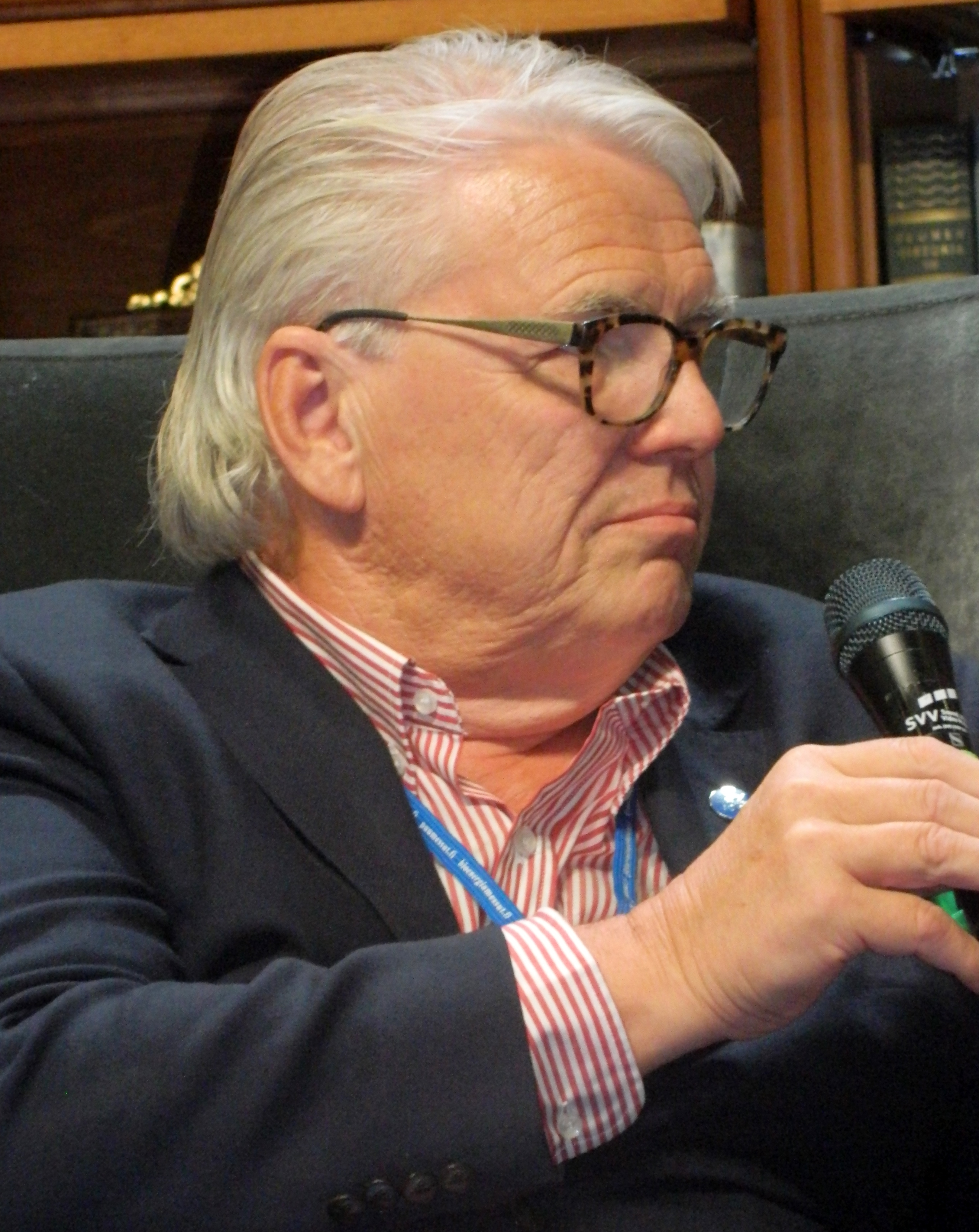 Lasse Lehtinen at the Helsinki Book Fair 2017